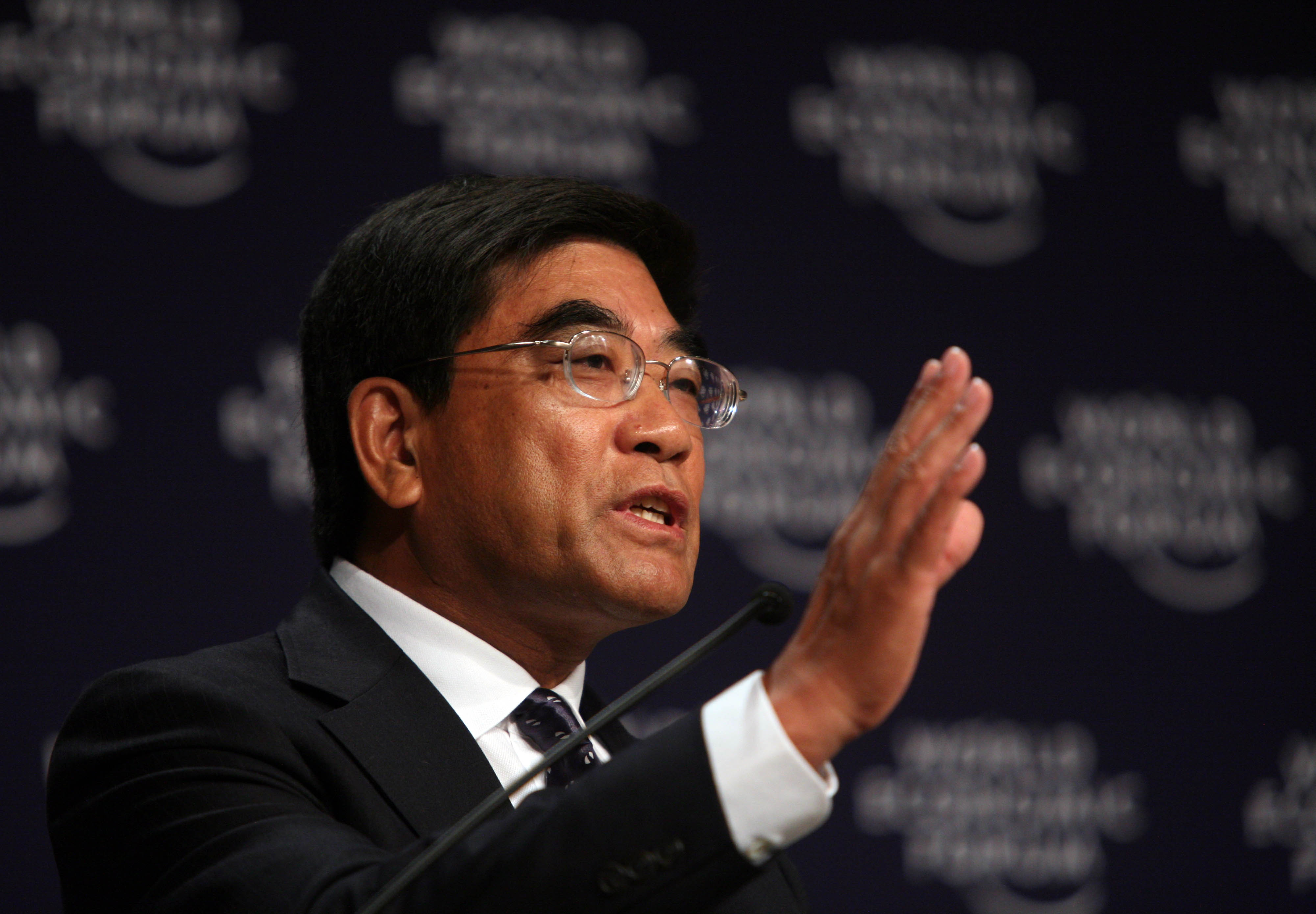 TIANJIN/CHINA, 27SEPT08 - Fu Chengyu, Chairman, Chief Executive Officer and Executive Director, China National Offshore Oil Corporation (CNOOC), speaks during the Global Growth at Risk plenary session at the World Economic Forum Annual Meeting of the New Champions in Tianjin, China 27 September 2008. Copyright World Economic Forum ( by Natalie Behring